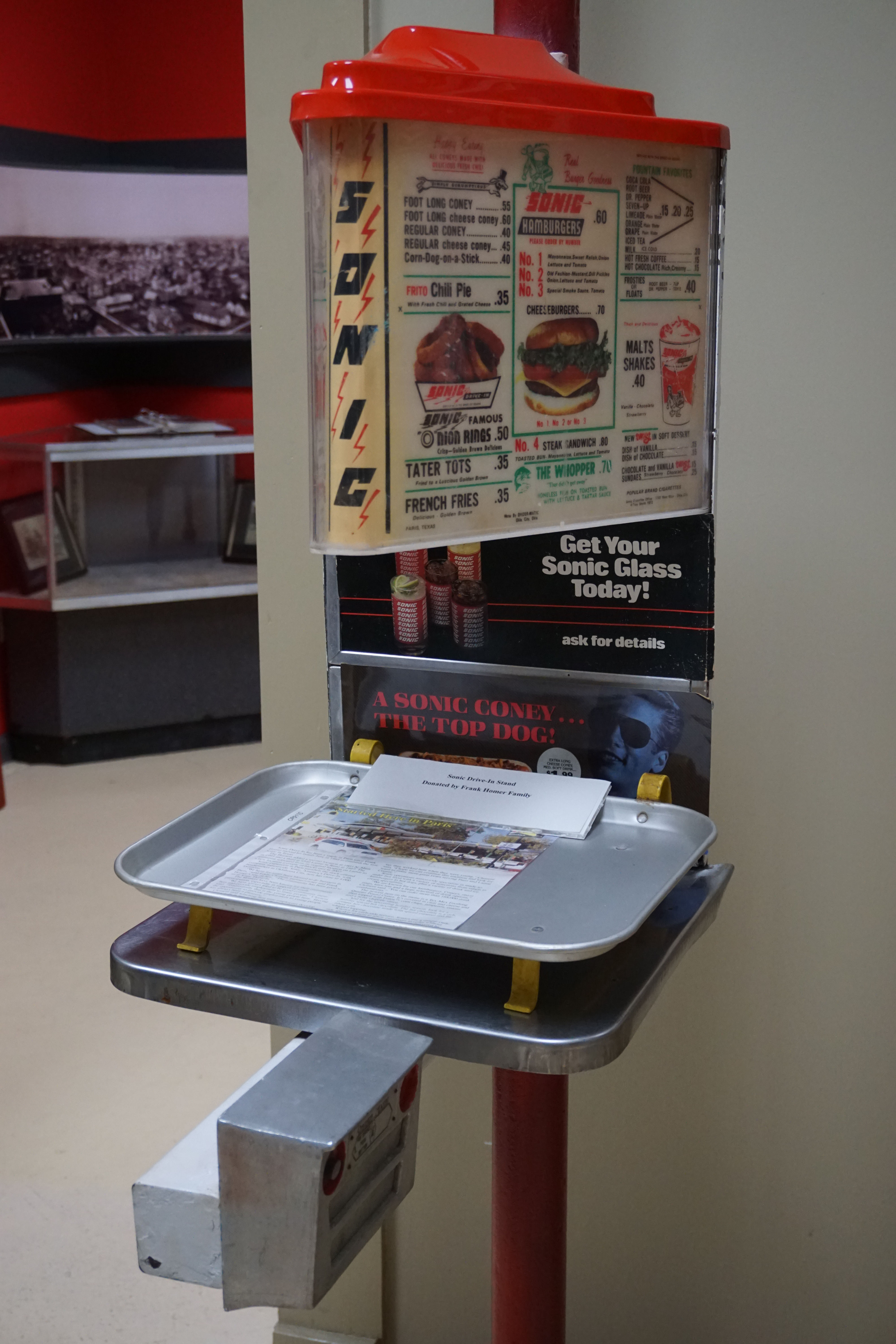 A Sonic Drive-In stand on display at the Lamar County Historical Museum in Paris, Texas (United States).